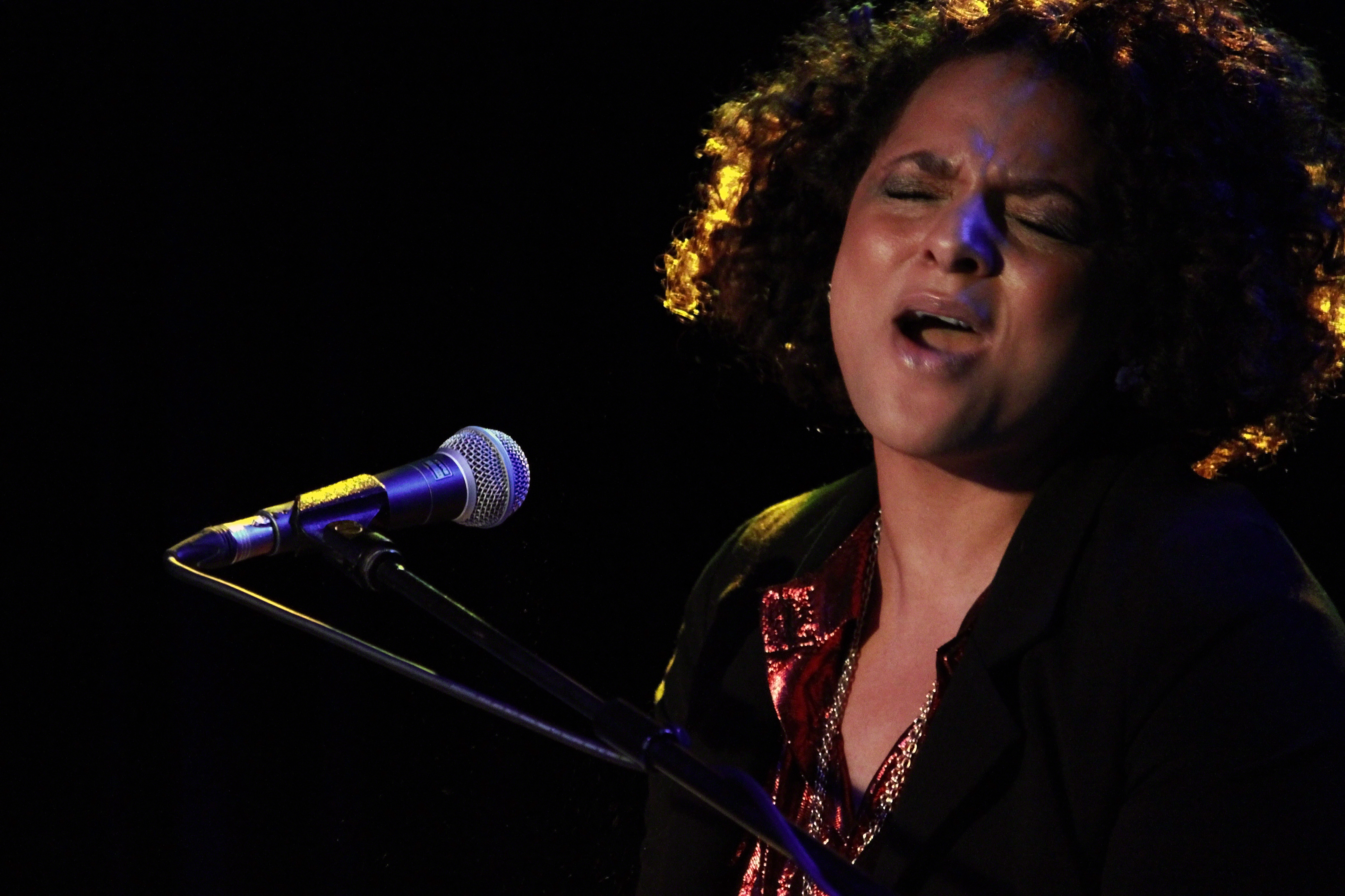 Marsha Ambrosius performing at Dingwalls, Camden Town, London on 27th December 2010.